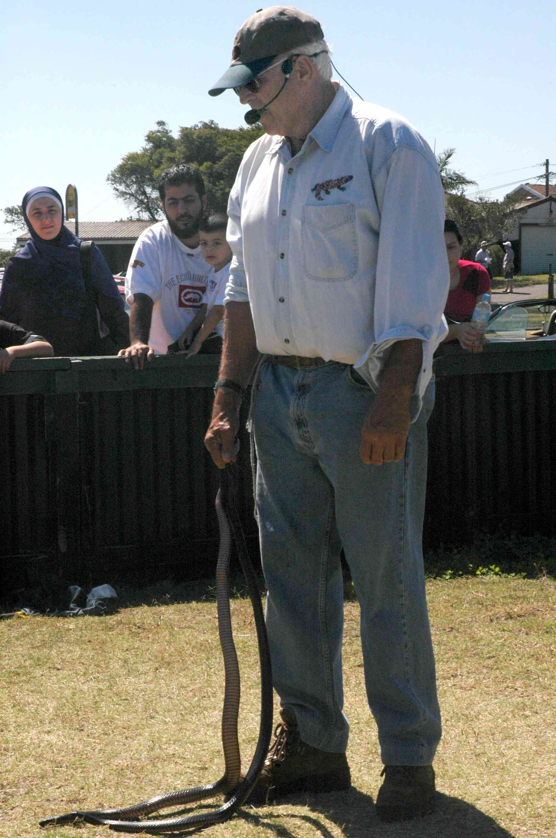 A young family watching the Snake Man of La Perouse, Sydney, Australia, on a sunny Sunday afternoon in January 2007.